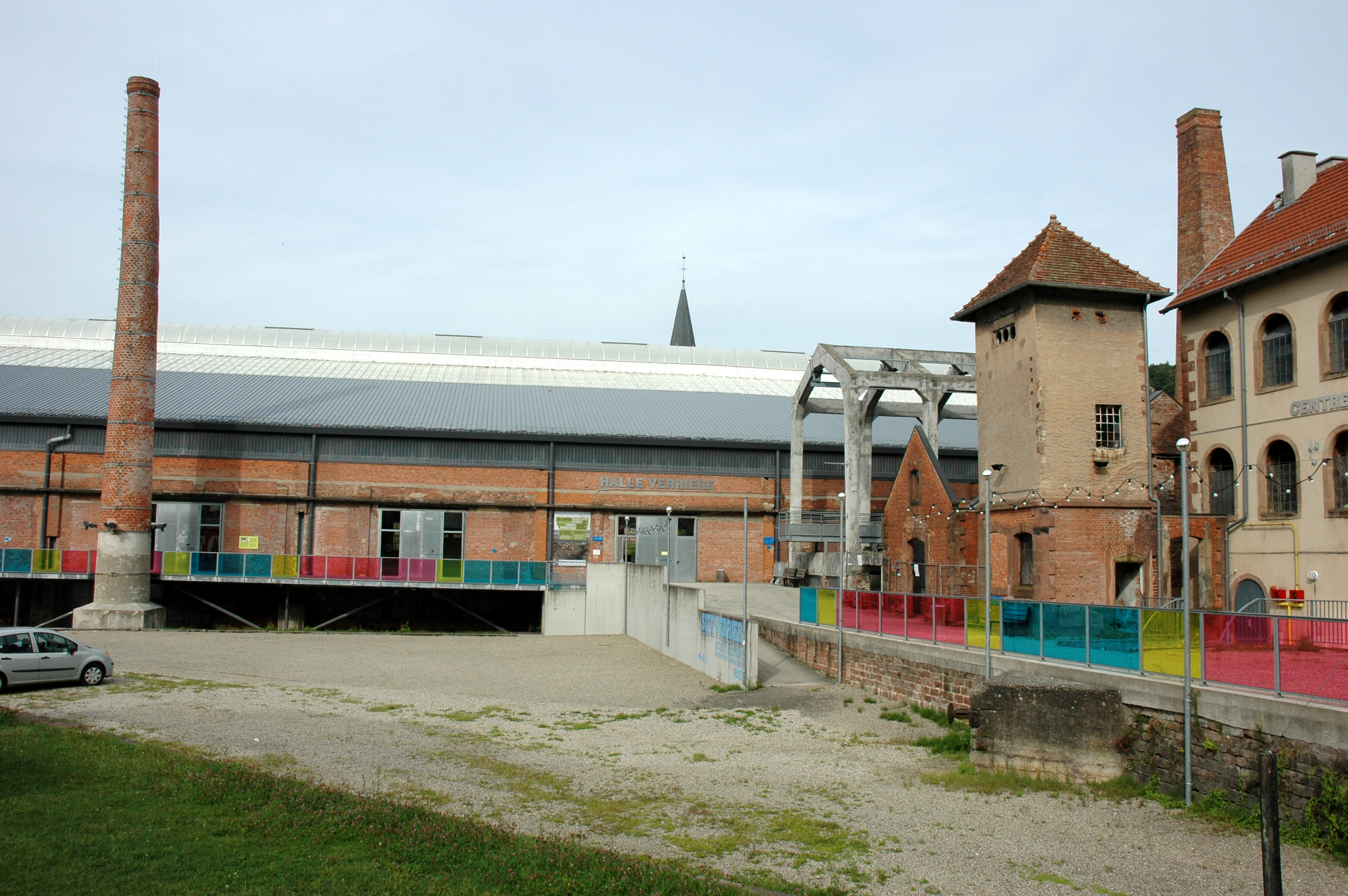 Meisenthal, international center for studio glass